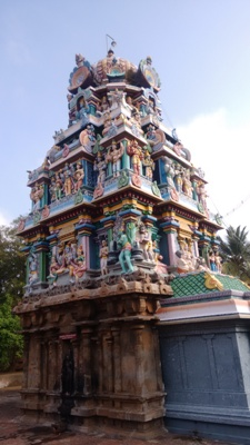 Vadakurangaduthuraidhayanitheesvarartemple வடகுரங்காடுதுறைதயாநிதீஸ்வரர்கோயில்